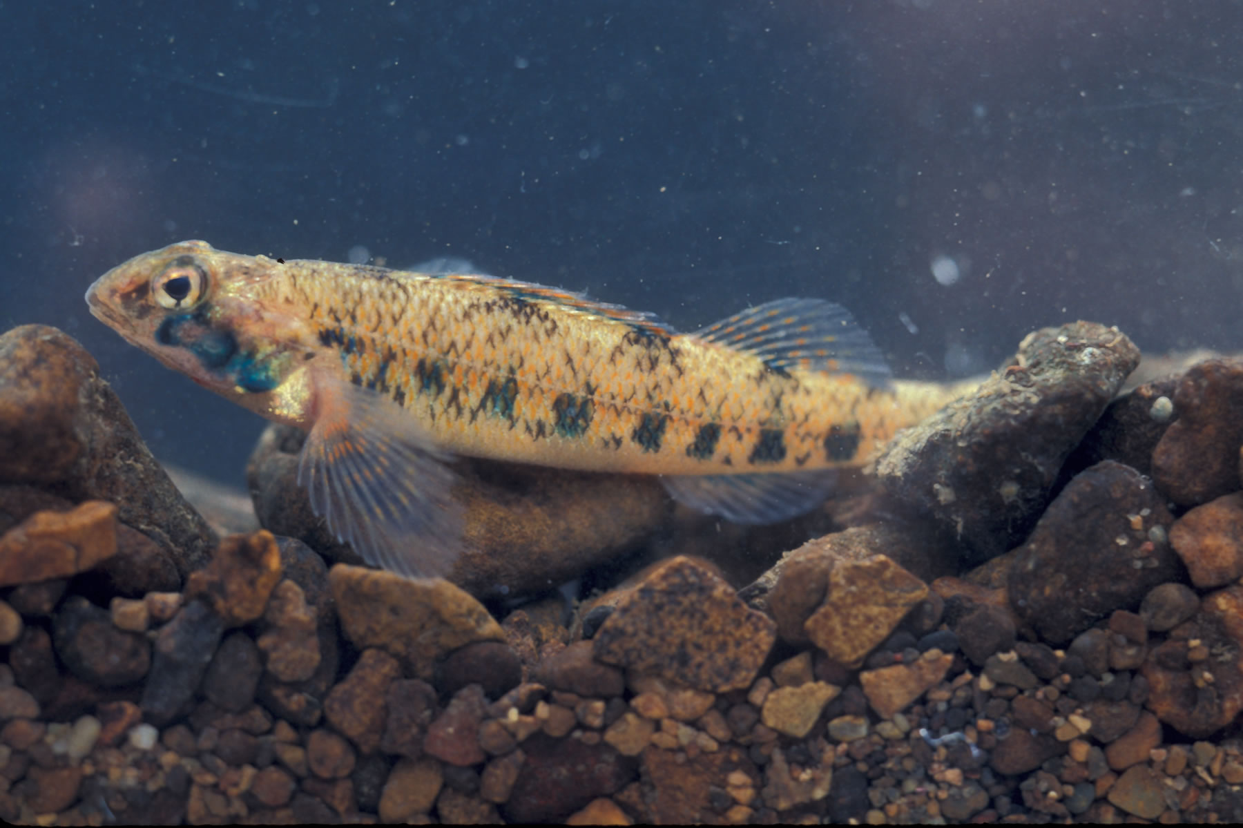 Etheostoma jessiae USFWS photo